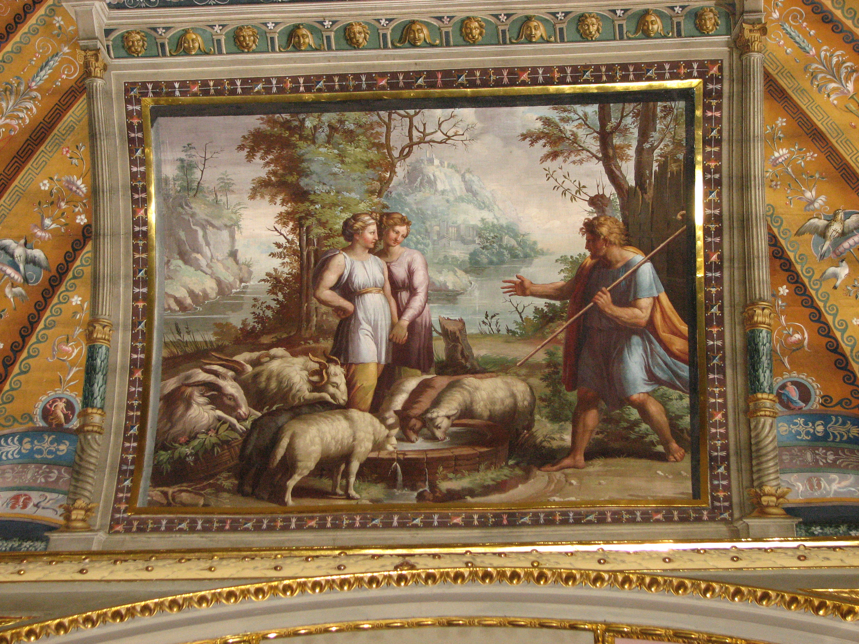 Loggias of Raphael in the Hermitage. 1780s. Painted in tempera. Copies of Raphael frescoes in the Vatican Palace. Created by order of Catherine II under the direction of Christoph Unterberger. "Jacob encounters Rachel." Workshops C. Unterberger; Tempera on canvas.